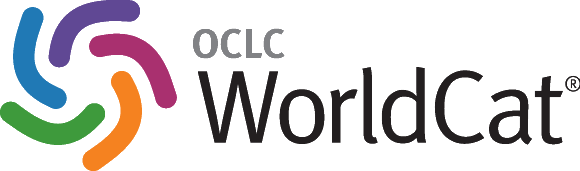 WorldCat Logo